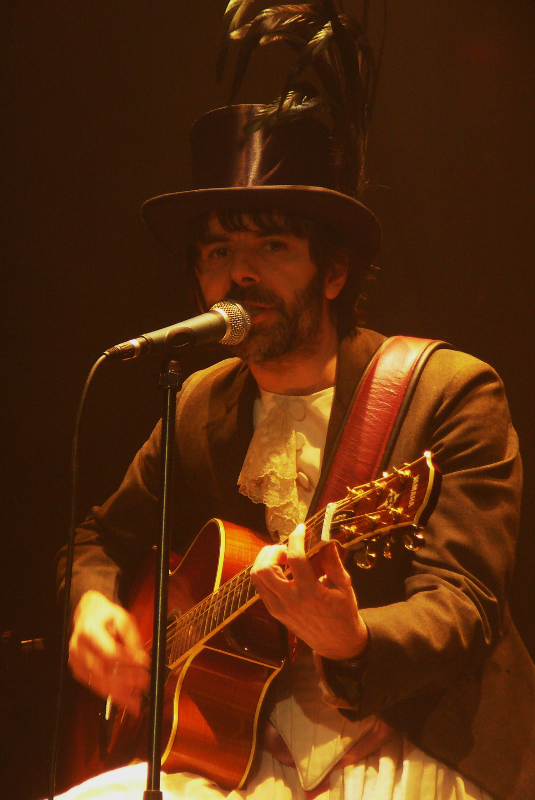 Thomas Fersen in concert in Villeurbanne (Lyon)